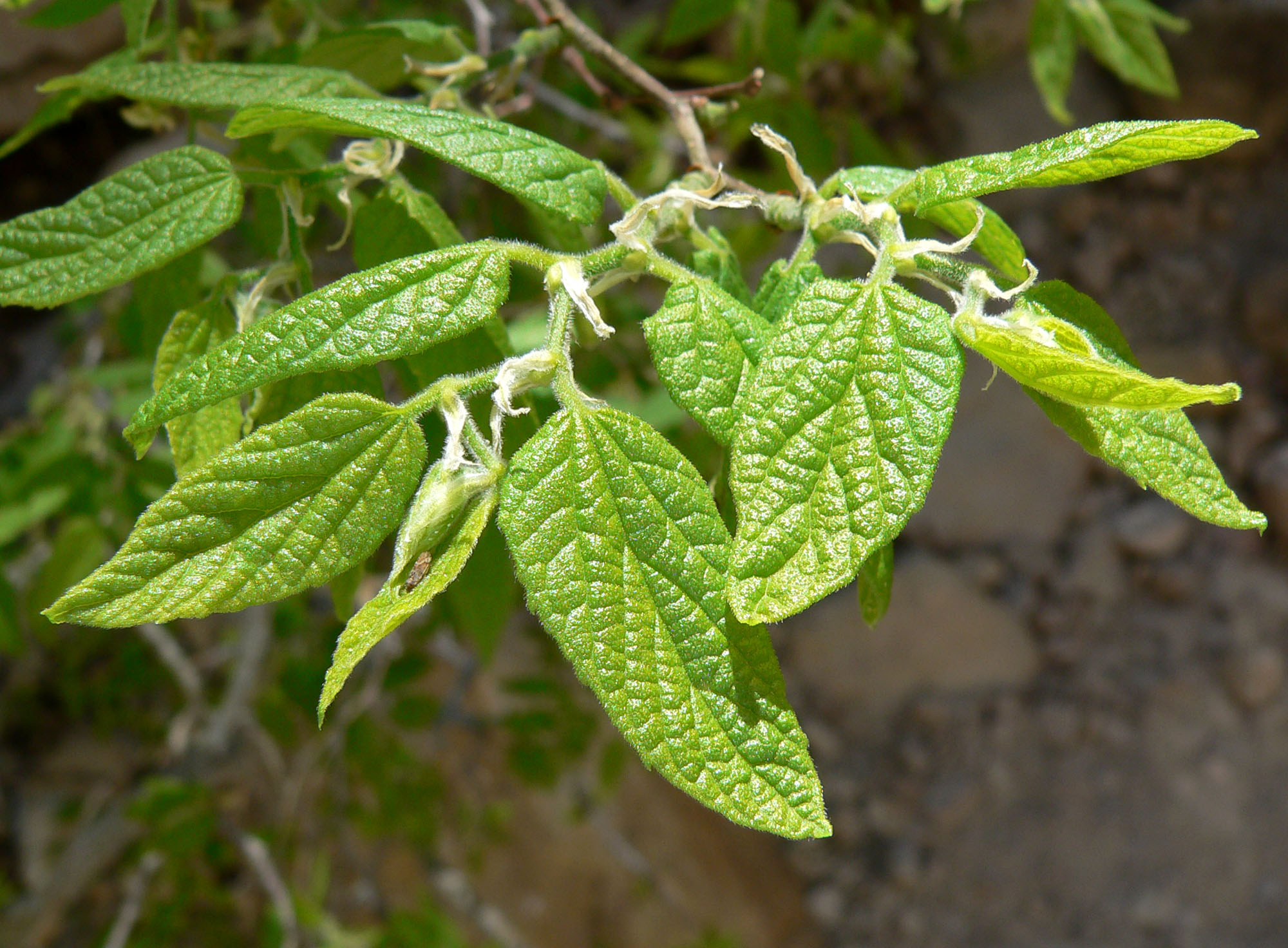 Celtis reticulata — Netleaf western hackberry. In Icebox Canyon (elev. about 1,400 metres (4,600 ft)). Within the Red Rock Canyon National Conservation Area, Spring Mountains, southern Nevada.